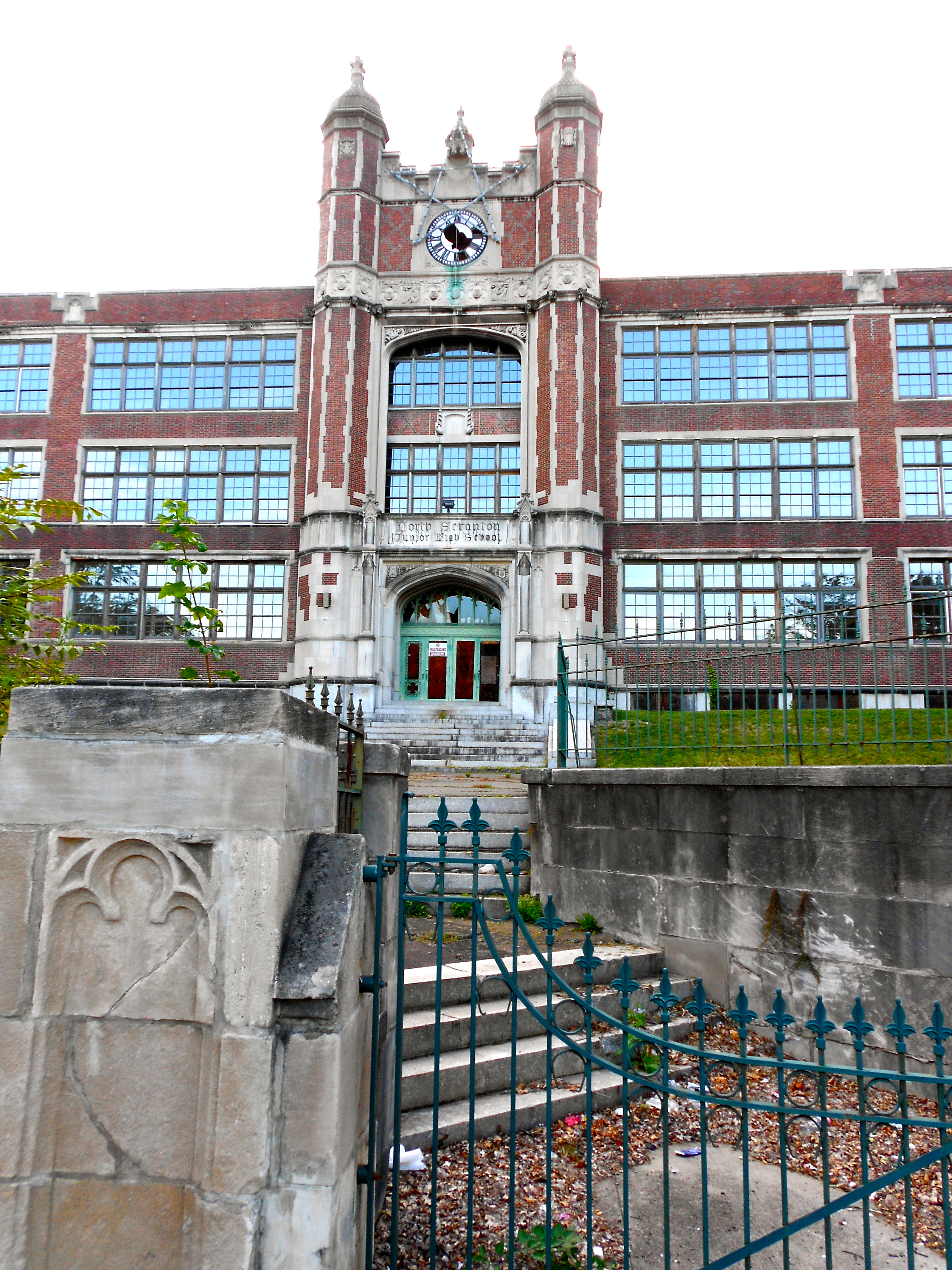 North Scranton Junior High School, list on the NRHP on September 24, 1999, at 1539 North Main Avenue, Scranton, Lackawanna, Pennsylvania. Beautiful building now abandoned.